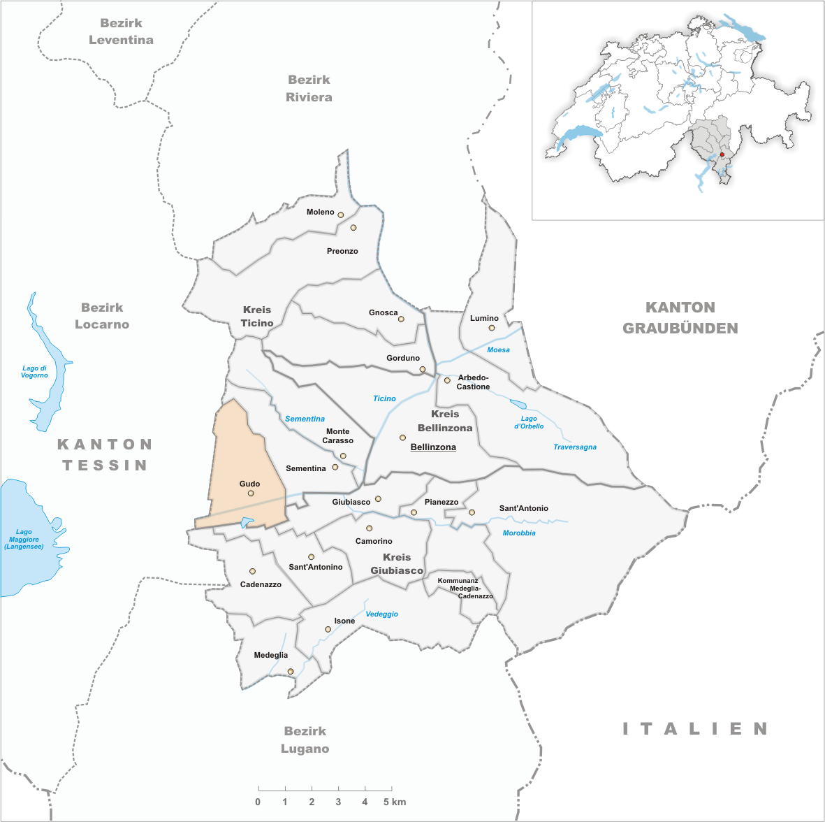 Municipality Gudo